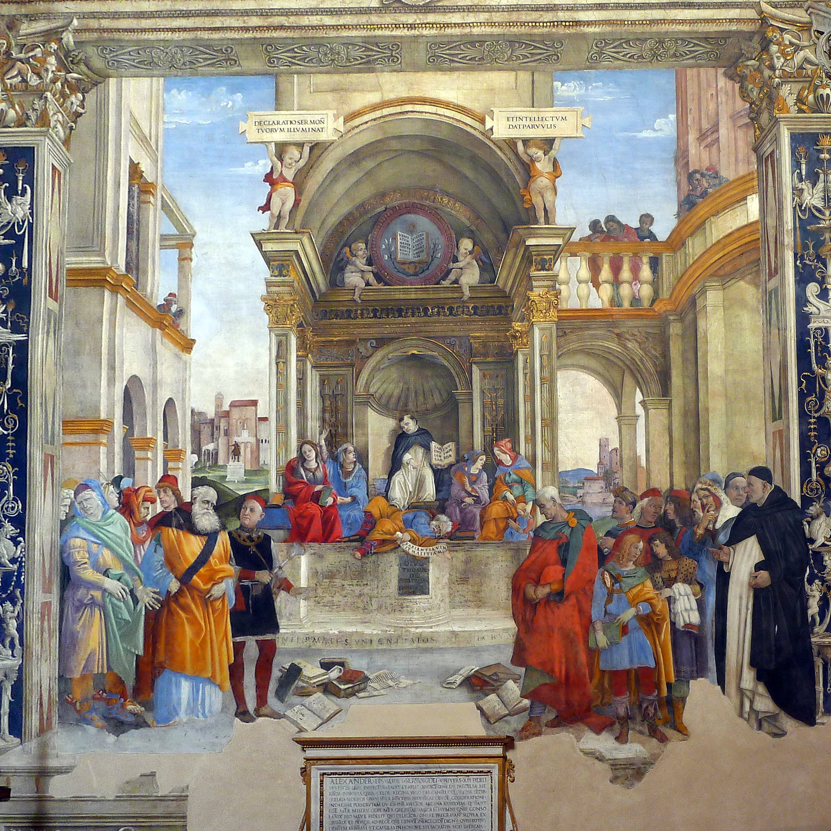 Santa Maria sopra Minerva (Rome), Cappella Carafa, Triumph of Saint Thomas